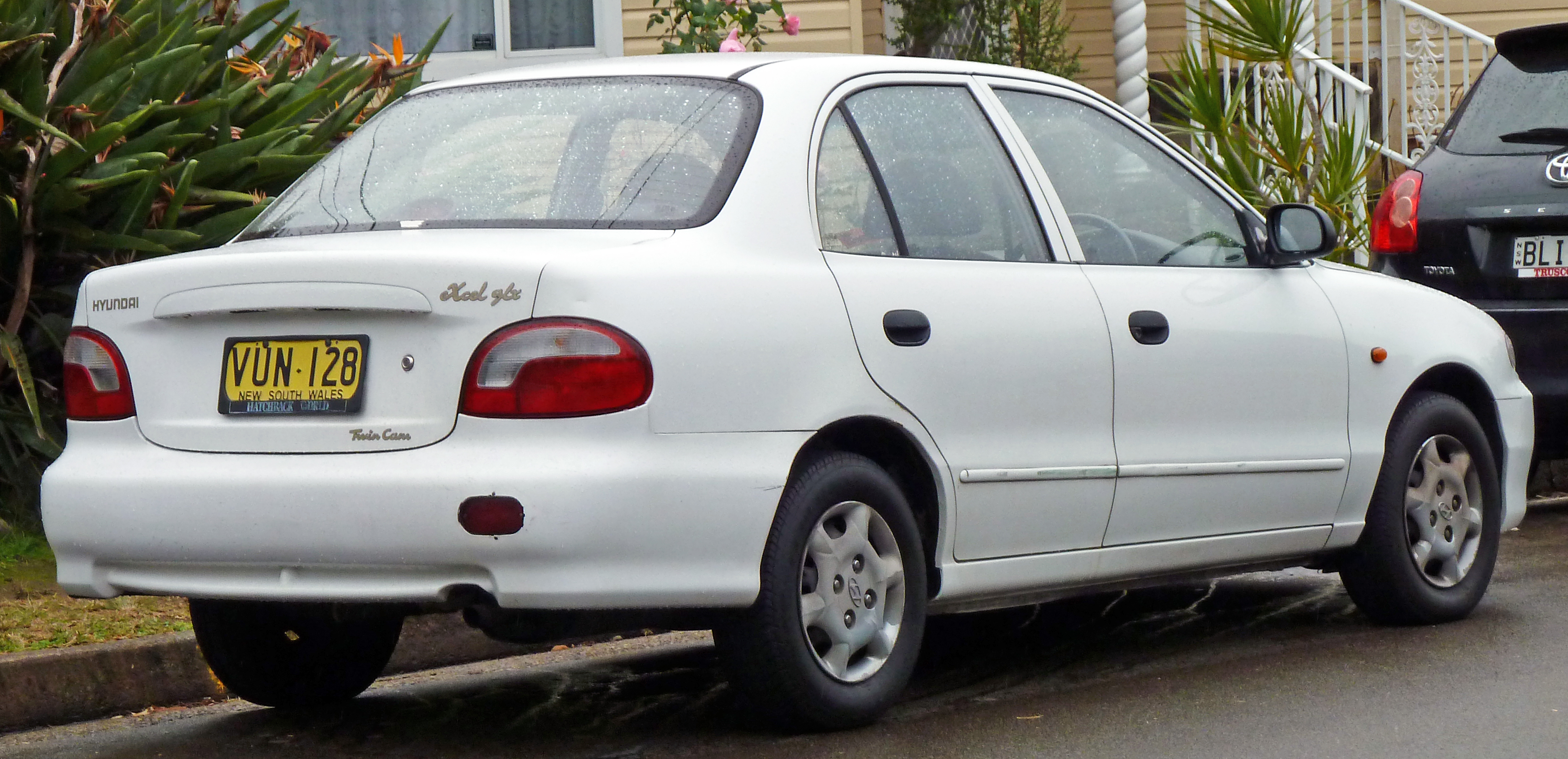 1999 Hyundai Excel (X3) GLX sedan. Photographed in Miranda, New South Wales, Australia.